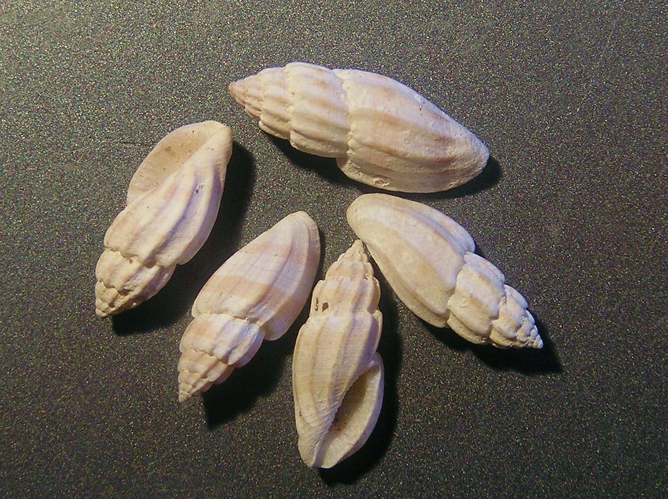 Eucithara coronata (Hinds, 1843) (synonym: Eucithara zonata (Reeve, 1846) ), a cone snail form the family Conidae; Philippines